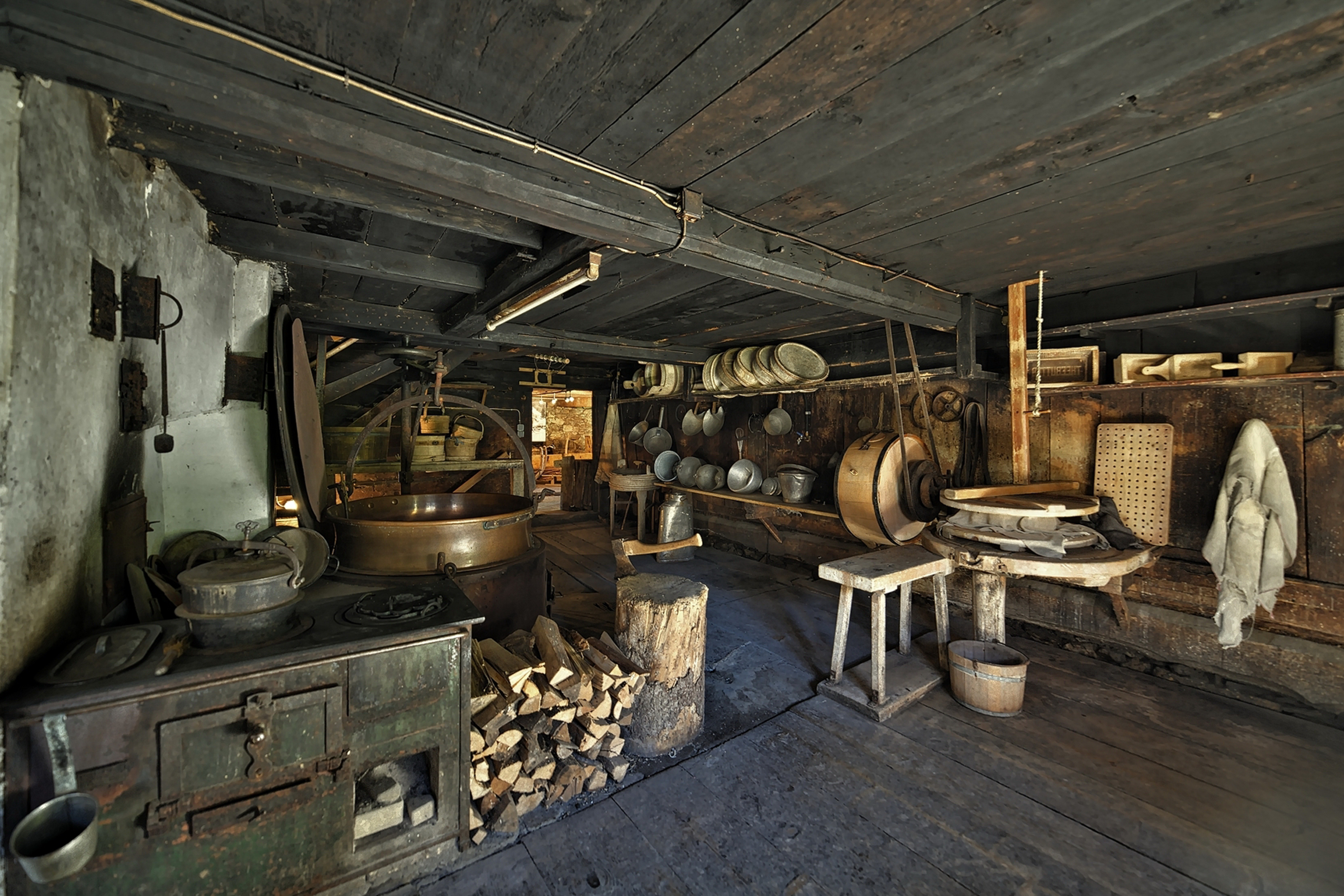 Alte Sennalpe Batzen (literal: Old Dairy Mountain Pasture Batzen) in Schröcken, Vorarlberg, Austria at Bregenzer Forest